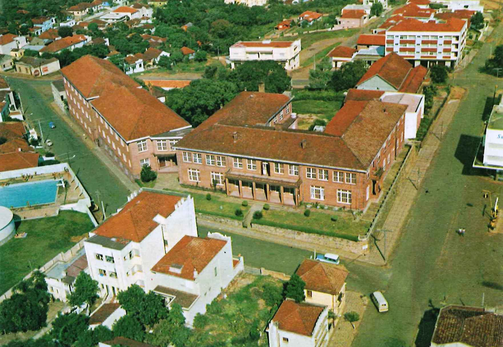 My school